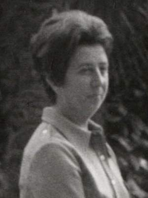 Inventarski broj: 1972 499 075